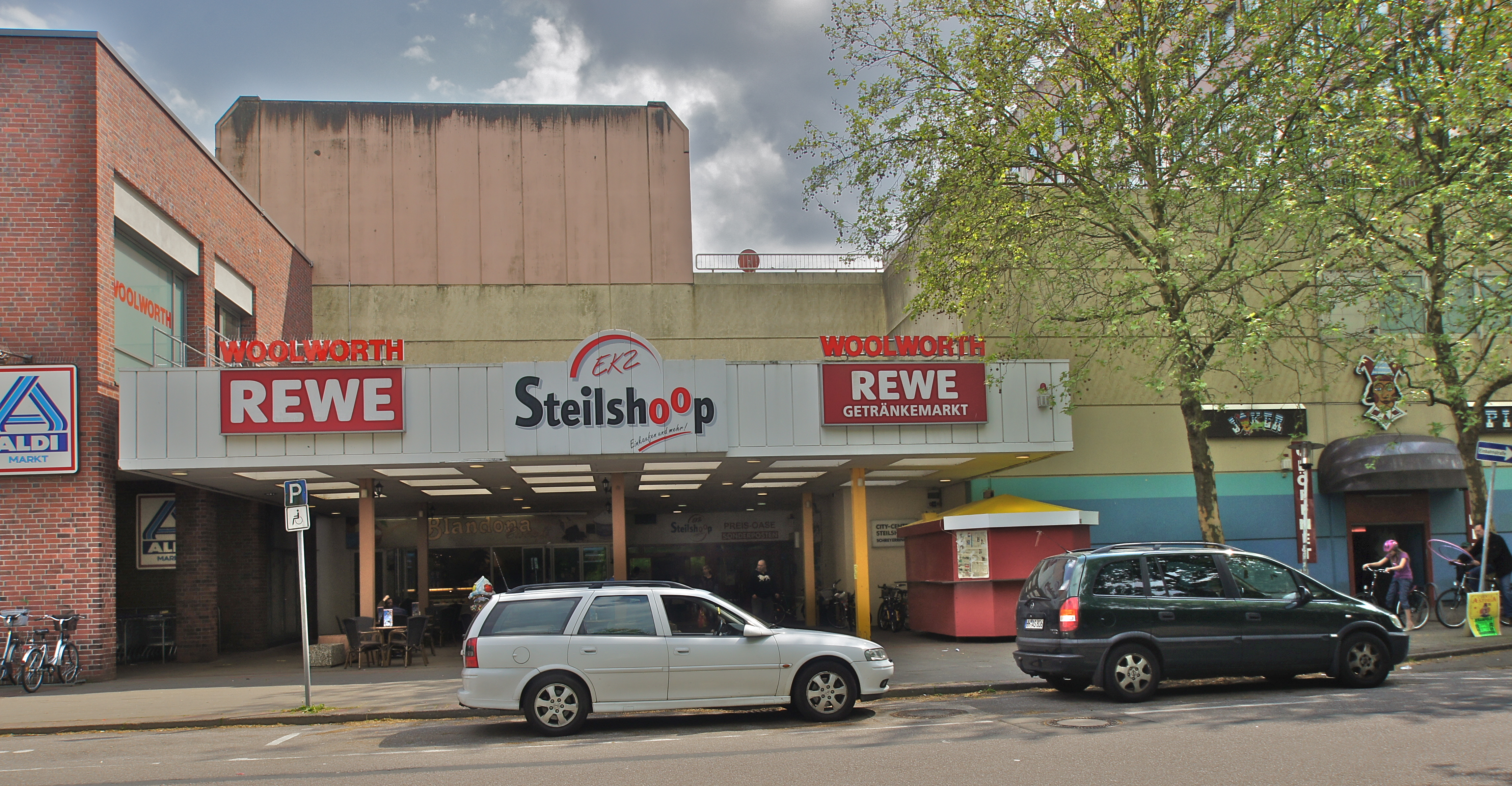 Hamburg (Steilshoop), Germany: The northern entrance of the shopping mall